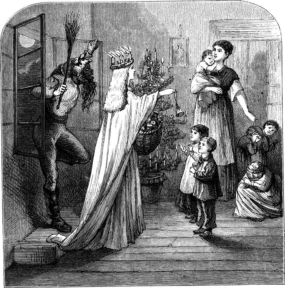 Christmas throughout Christendom The Christ-child and Hans Trapp